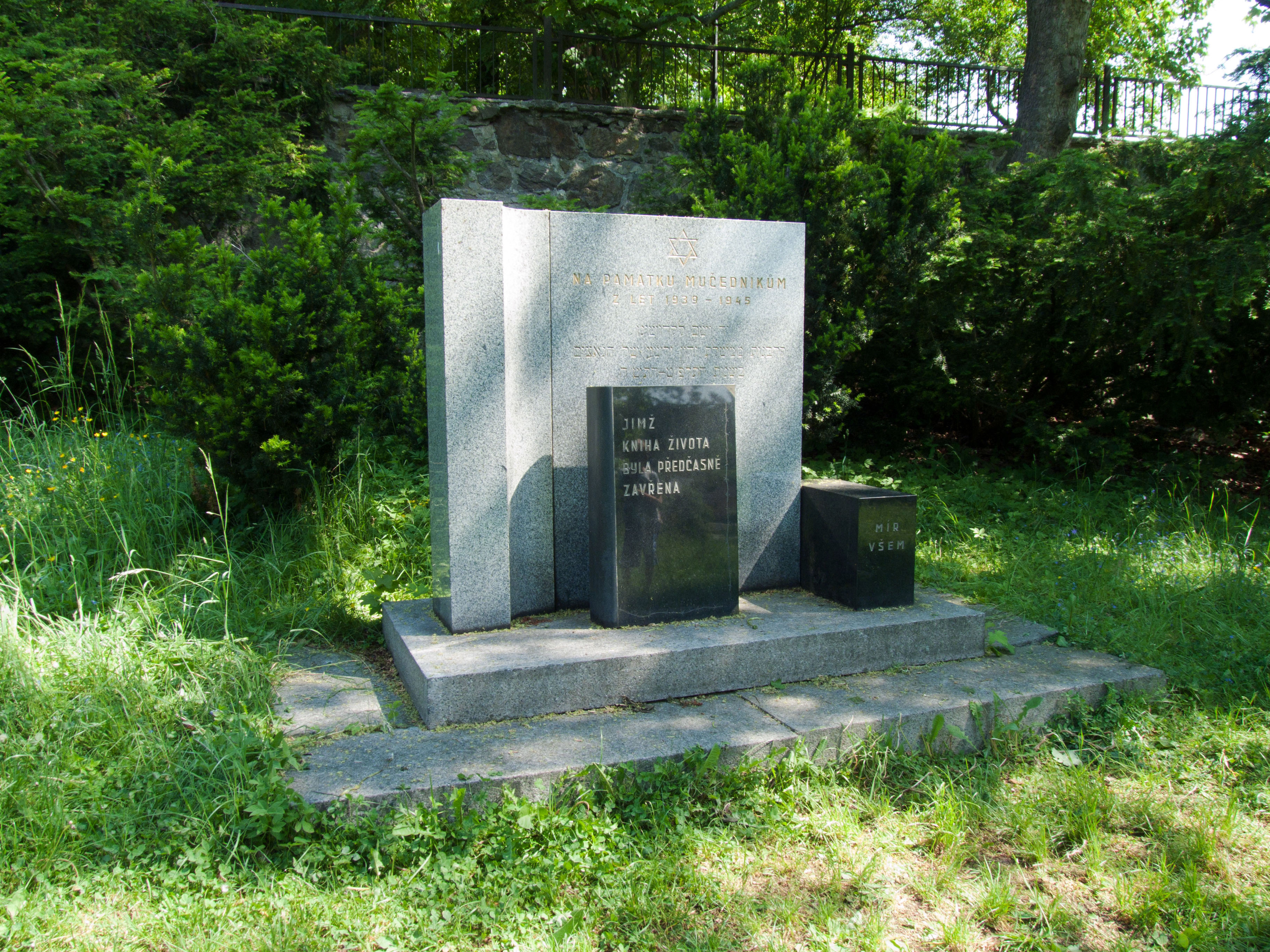 Memorial in the Old Jewish cemetery in the town of Tábor, South Bohemian Region, Czech Republic (1955). Česky: Památník na Starém židovském hřbitově ve městě Tábor, Jihočeský kraj, z roku 1955.